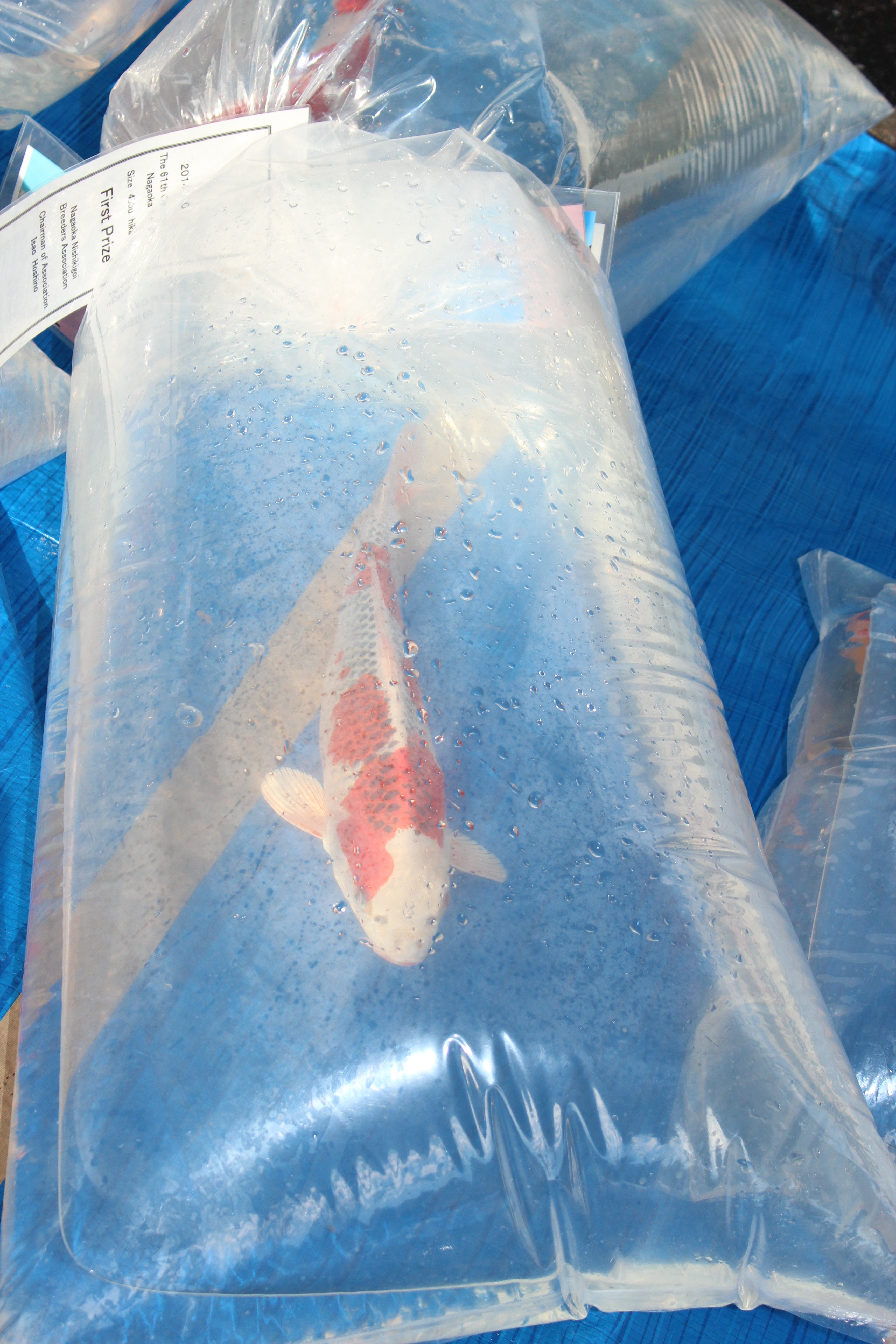 61st Nagaoka Koi Show at Yamakoshi Branch Office, Nagaoka, Niigata Prefecture, Japan